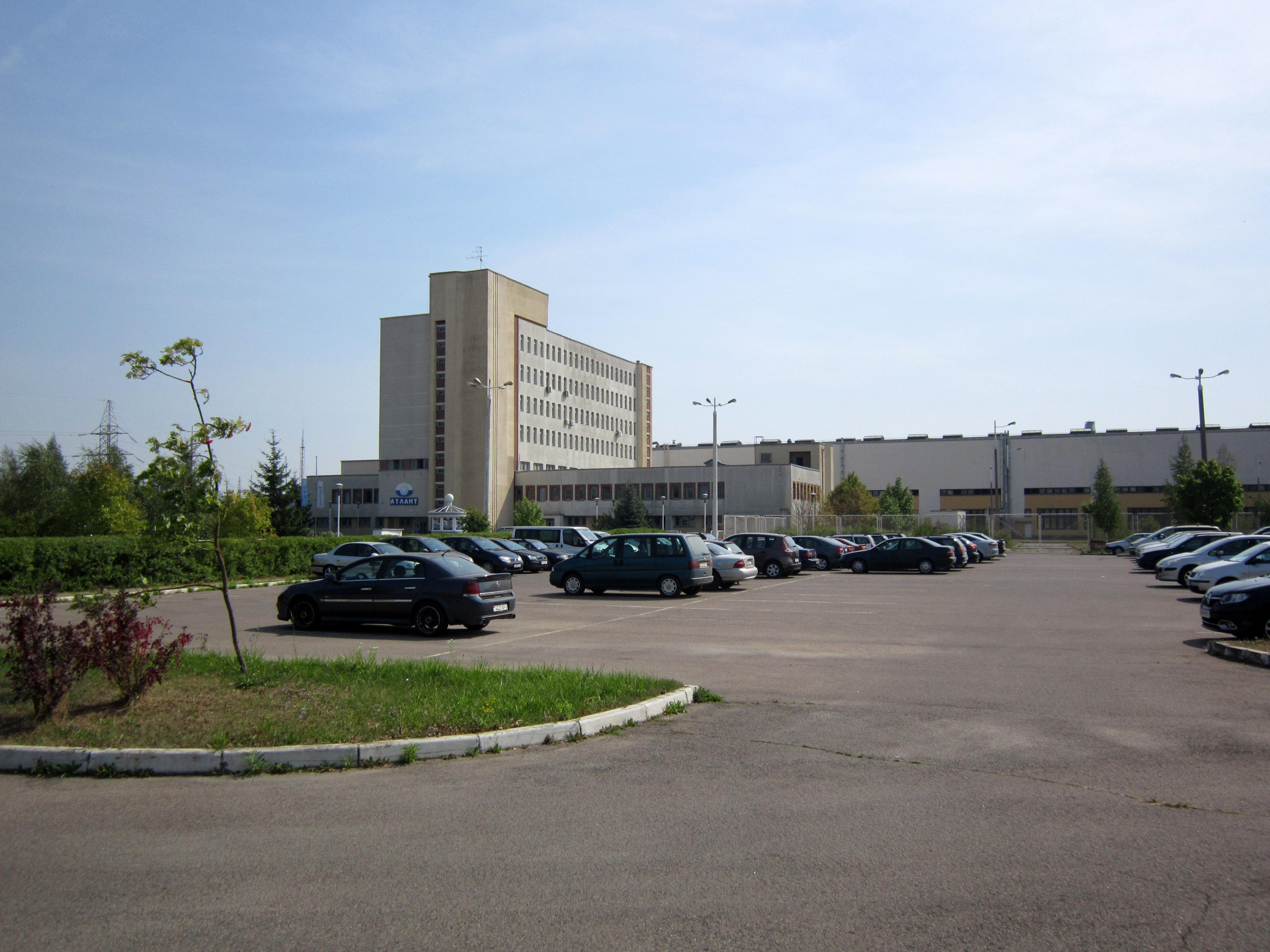 Sialickaha street in Minsk, Belarus. Home appliances factory "Atlant"